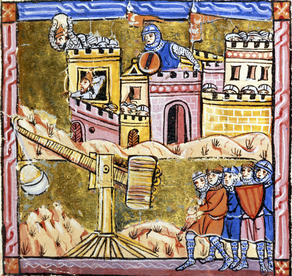 Siege of Antioch